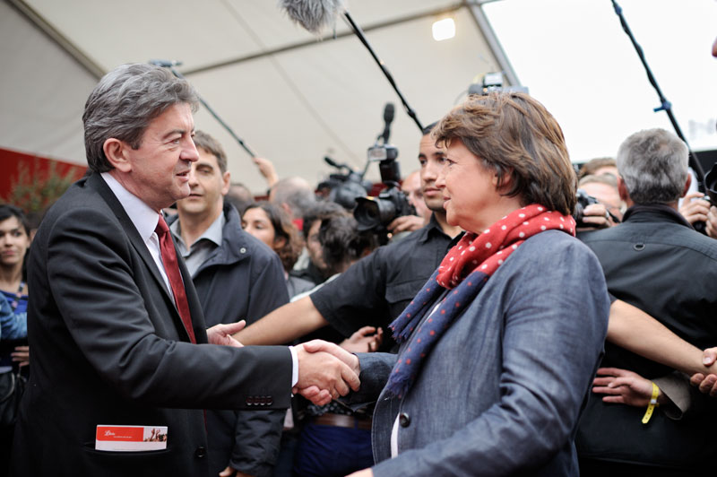 Depicted people: Jean-Luc Mélenchon and Martine Aubry